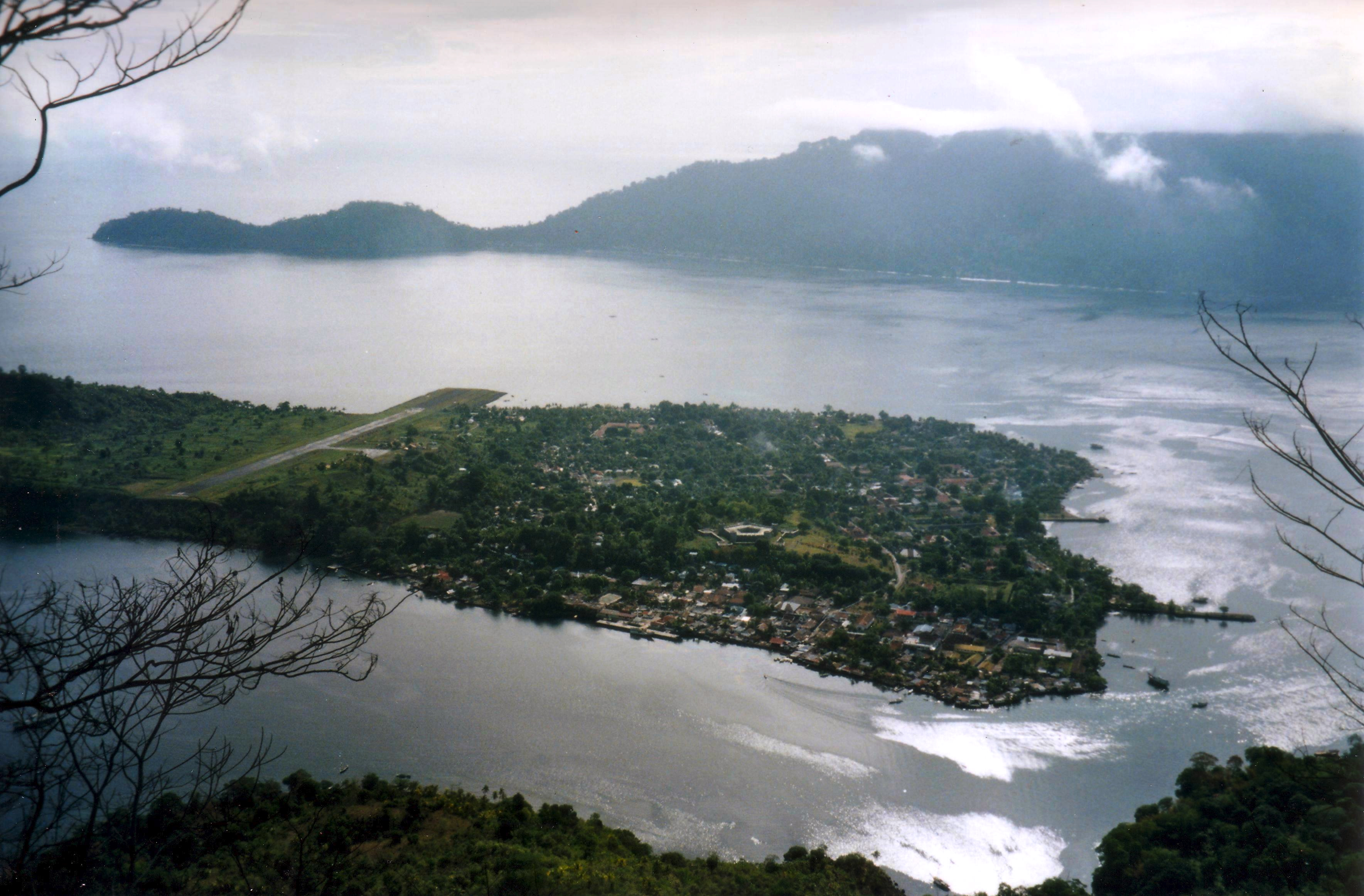 The Banda Islands. Jan 1998. Viewed from the peak of Gunung Api volcano. In the centre is group's main island, Bandaneira, where the airstrip, port, and Fort Belgica can be seen. In the background is part of Lontar Island, from where the spice nutmeg originated.